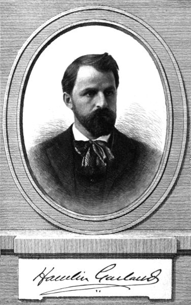 Hamlin Garland - photo and signature